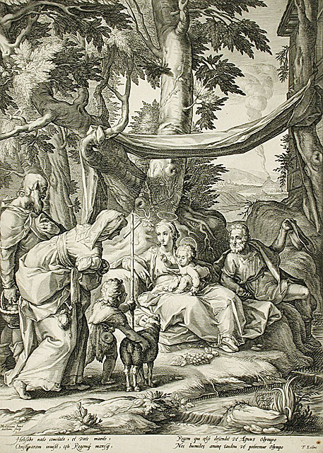 Depiction of the Holy Family in a landscape visited by Zacharias, Elizabeth and a young Saint John the Baptist. The engraving contains a poem in Latin by Franco Estius.